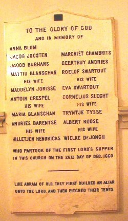 First Reformed Dutch Church establishment